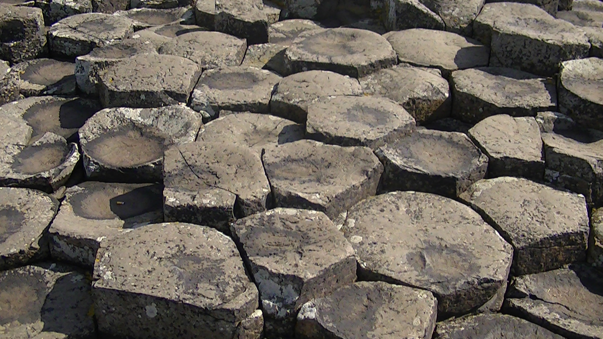 Basalt stones at Giant's Causeway